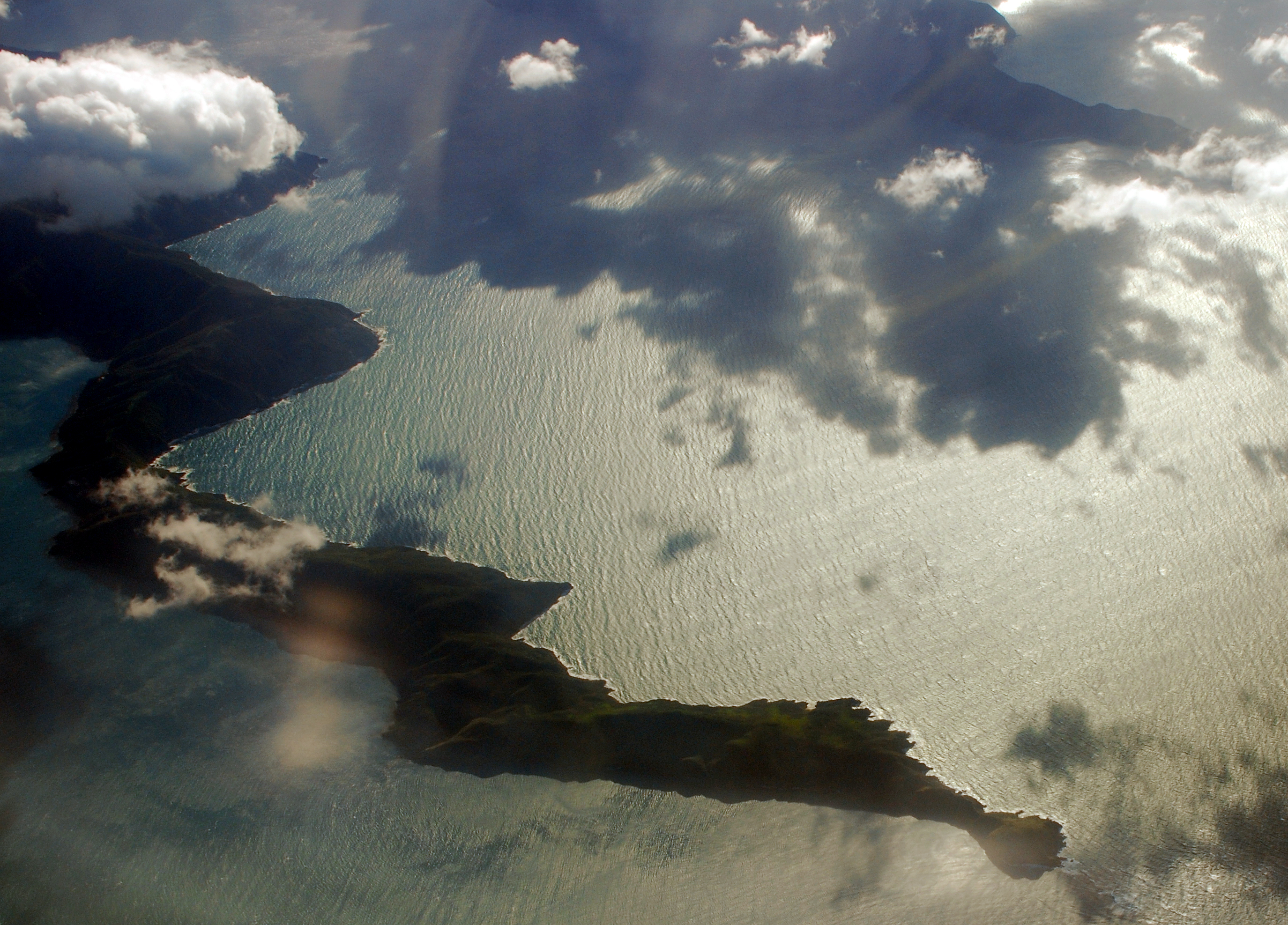 En route New Plymouth to Wellington